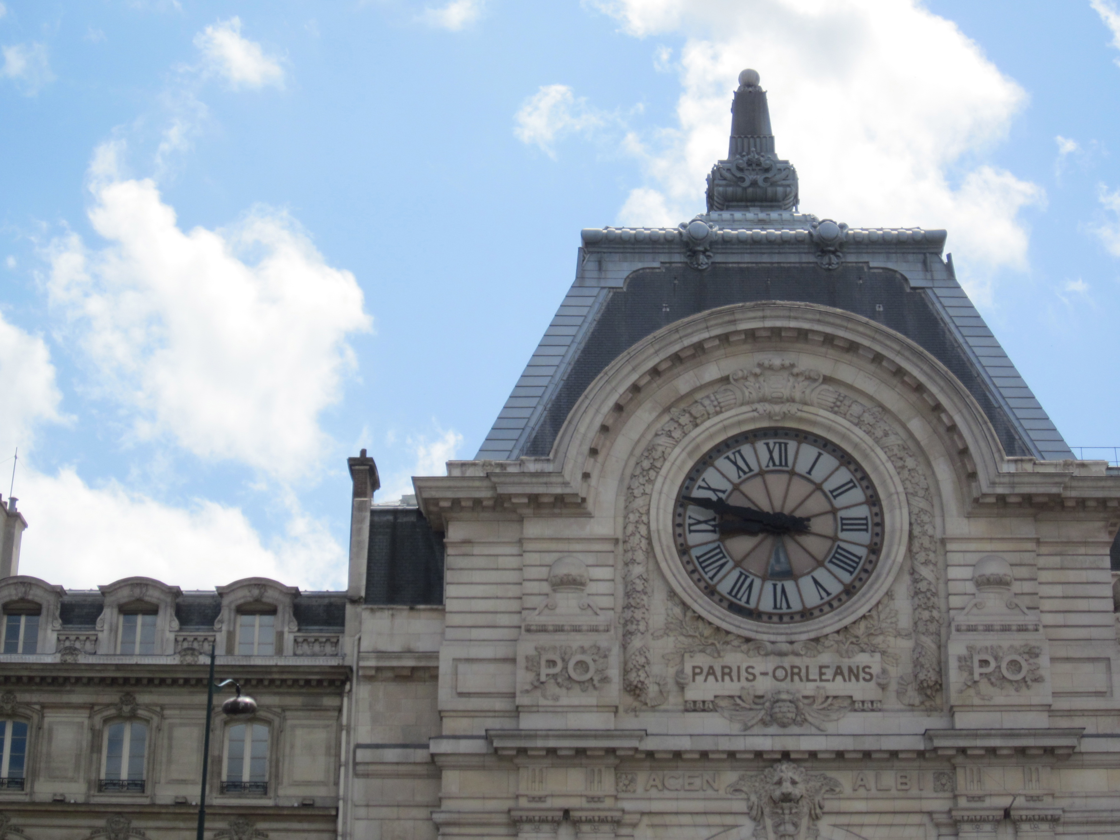 Façade of the Orsay Museum